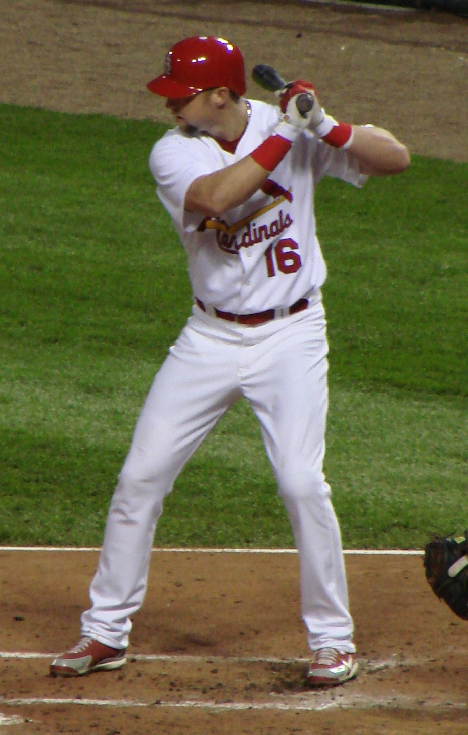 St. Louis Cardinals left fielder Chris Duncan batting on April 27 2007 vs. the Chicago Cubs. He would ground out to Derrek Lee. 19:22, 14 July 2007 . . Mshake3 . . 926×1455 (552 KB)